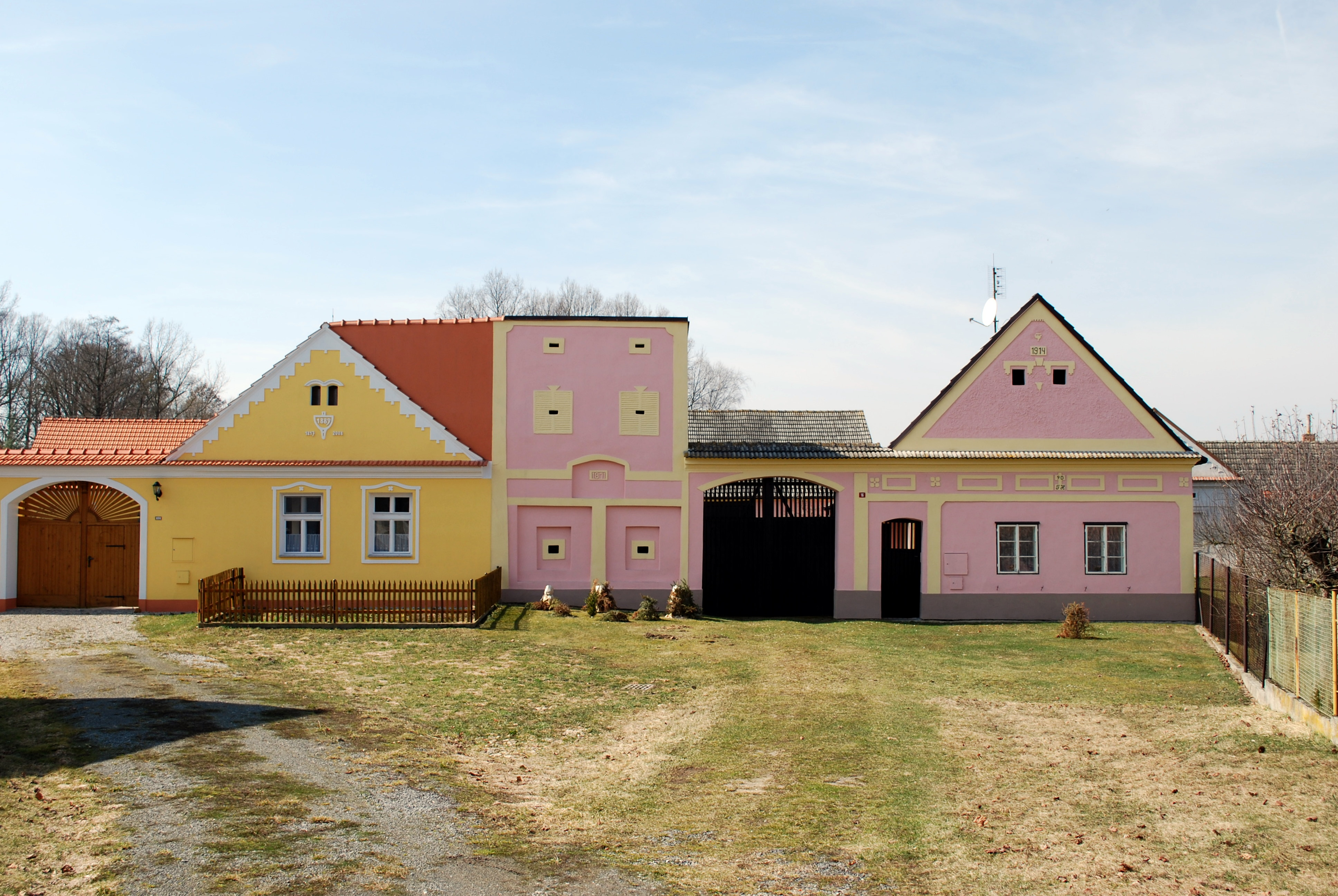 Ponědrážka village in Jindřichův Hradec District, Czech republic. This photograph was taken within the scope of the 'Czech Municipalities Photographs' grant.